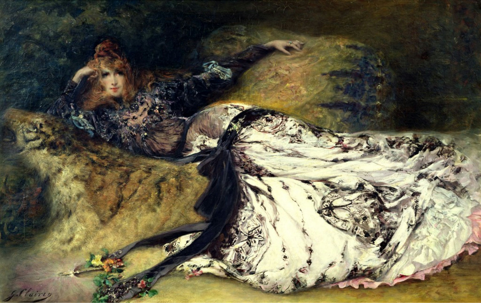 Sarah Bernhardt (1844-1923)